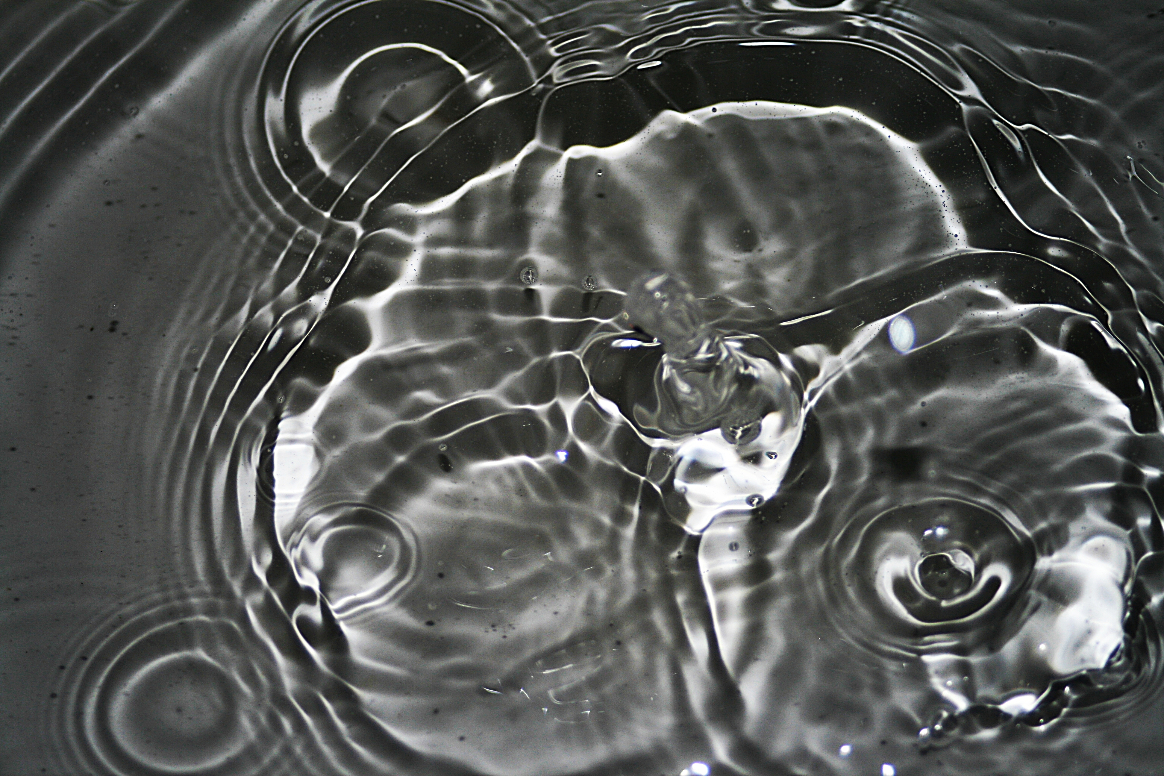 Few Water droplets impact water surface.